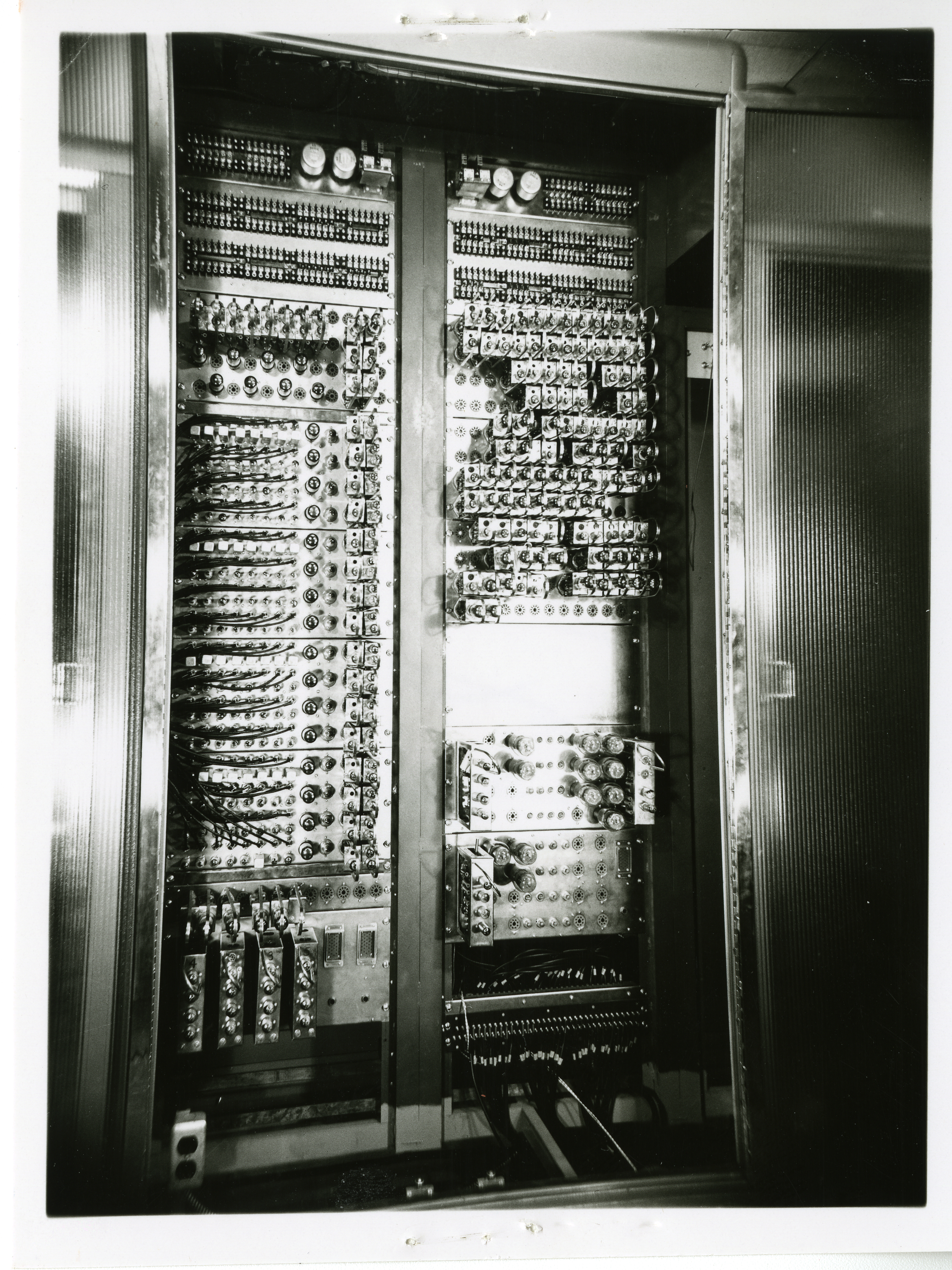 Magnetic drum auxiliary memory added to SWAC to increase its problem-solving capacity